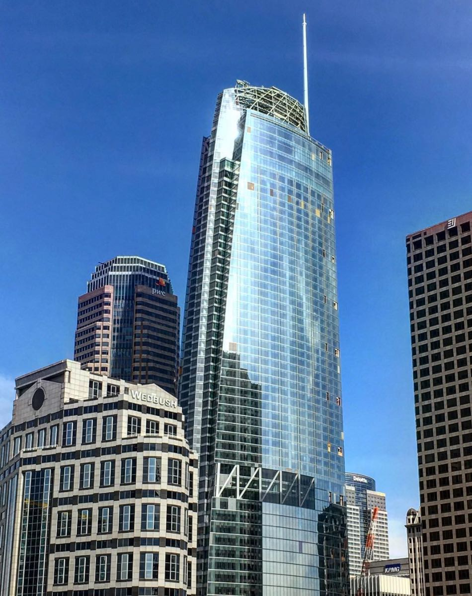 Wilshire Grand / Korean Air Building